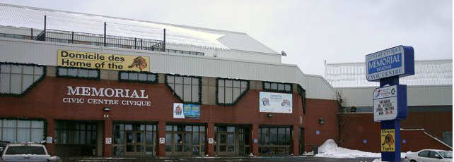 Memorial Civic Center in Campbellton, NB